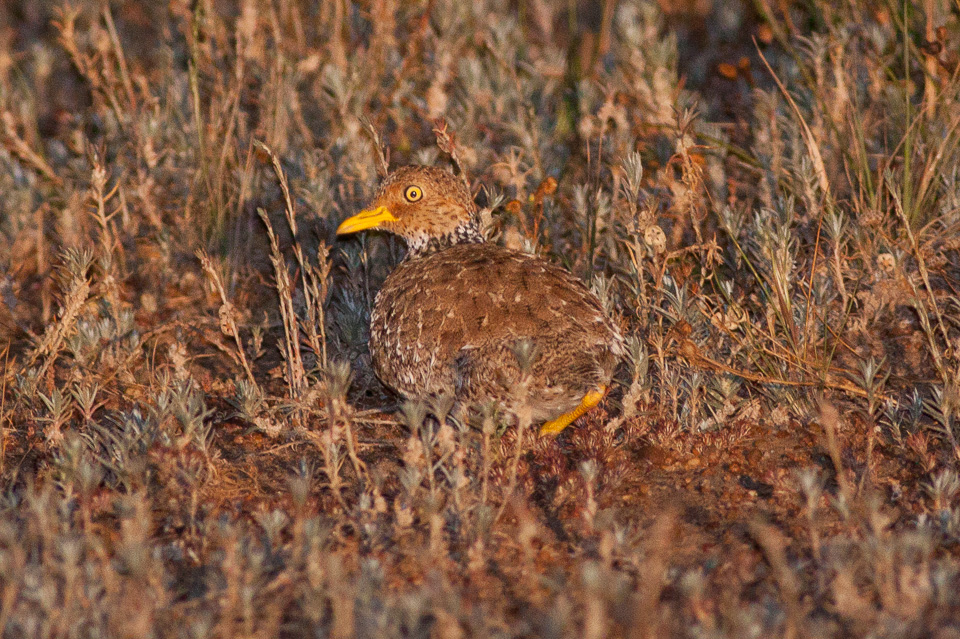 Plains-wanderer Pedionomus torquatus, South Australia